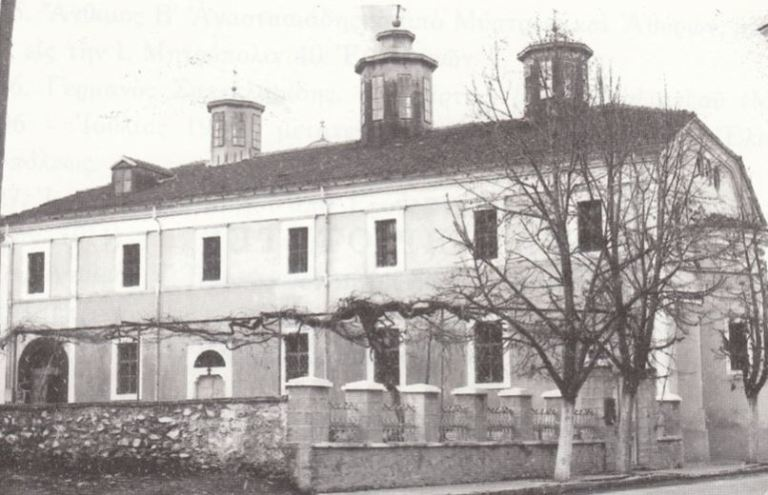 Saint Pantaleimon, Lerin